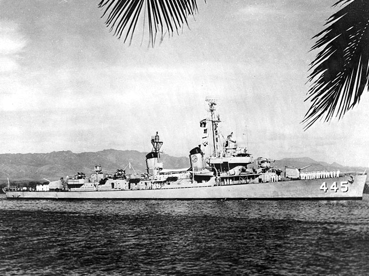 The U.S. Navy destroyer USS Fletcher (DD-445) in Pearl Harbor, Hawaii (USA), circa 1964.